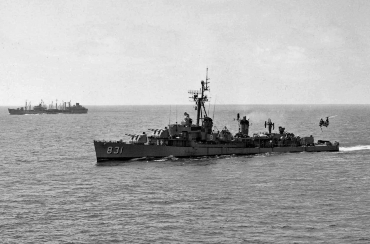 A U.S. Navy Piasecki HUP Retriever helicopter hovers over the stern of the destroyer USS Goodrich (DDR-831), circa 1958. A fleet oiler is visible in the background.